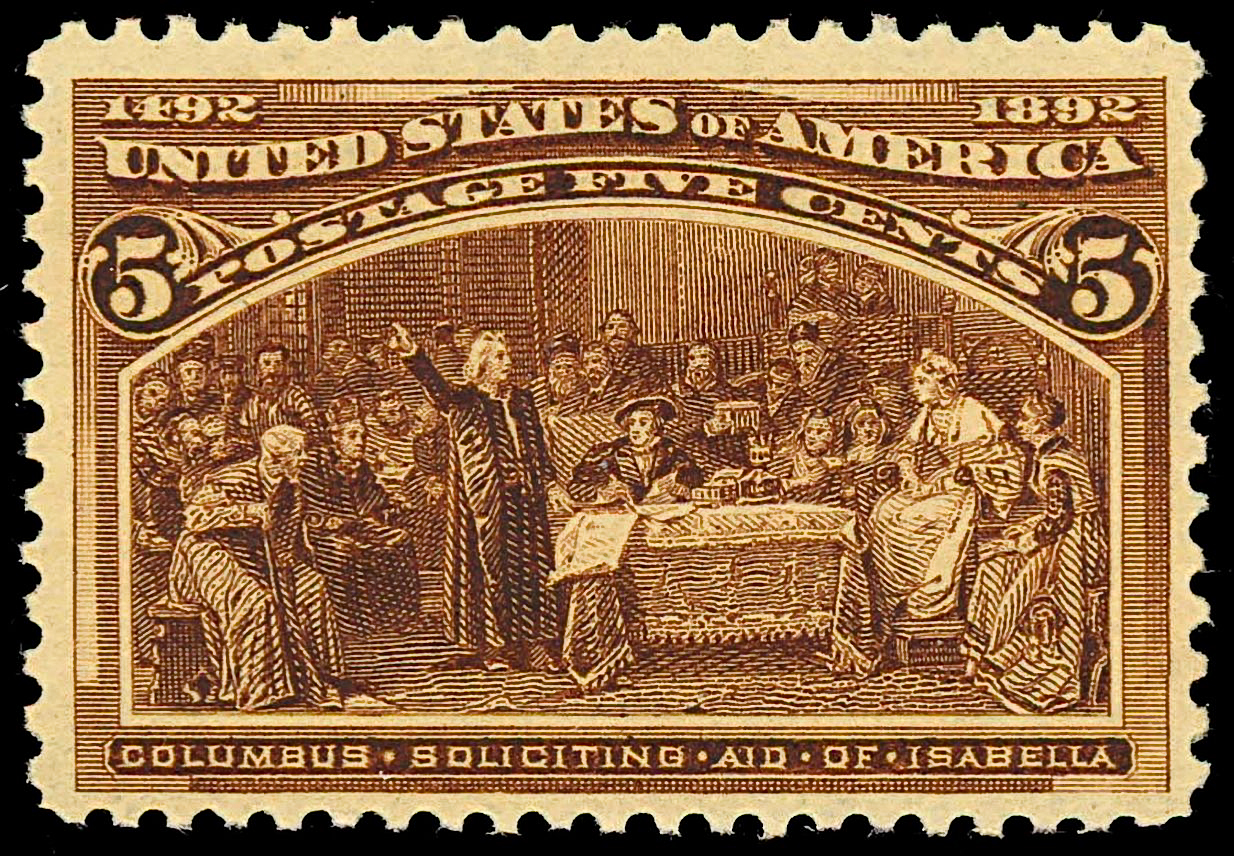 Columbian_Issue_1893-5c.jpg